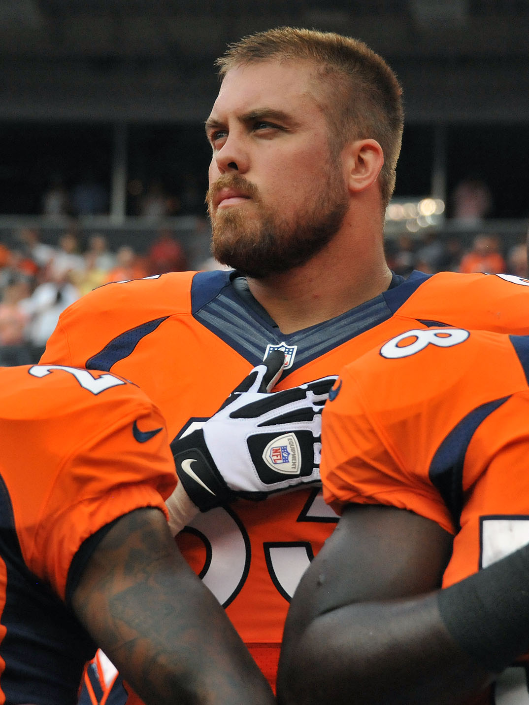 Air National Guard 1st Lt. Benjamin Garland, Denver Broncos Offensive Guard and 140th Wing Public Affairs Officer, stand with Ronnie Hillman (21) and Montee Ball (38) as he listens to the National Anthem at Sports Authority Field at Mile High Stadium, Denver, Colo. Aug 24, 2013. Garland, who originally entered the National Football League in 2010 after graduating from the U.S. Air Force Academy, was on the Bronco’s reserve/military list while fulfilling his active duty obligations in the Air Force. In 2012 Garland joined the Colorado Air National Guard and made the Broncos practice squad as a defensive lineman and is competing this season to make the 53 man final roster. (Air National Guard photo by Tech. Sgt. Wolfram M. Stumpf/RELEASED)